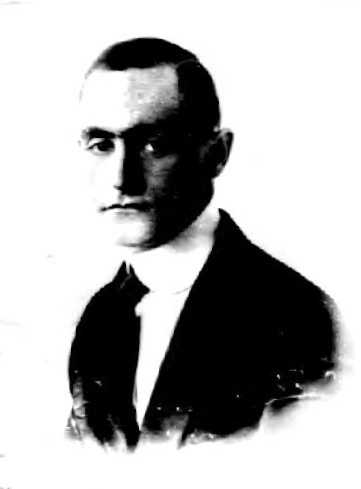 Henry Ragas photograph.